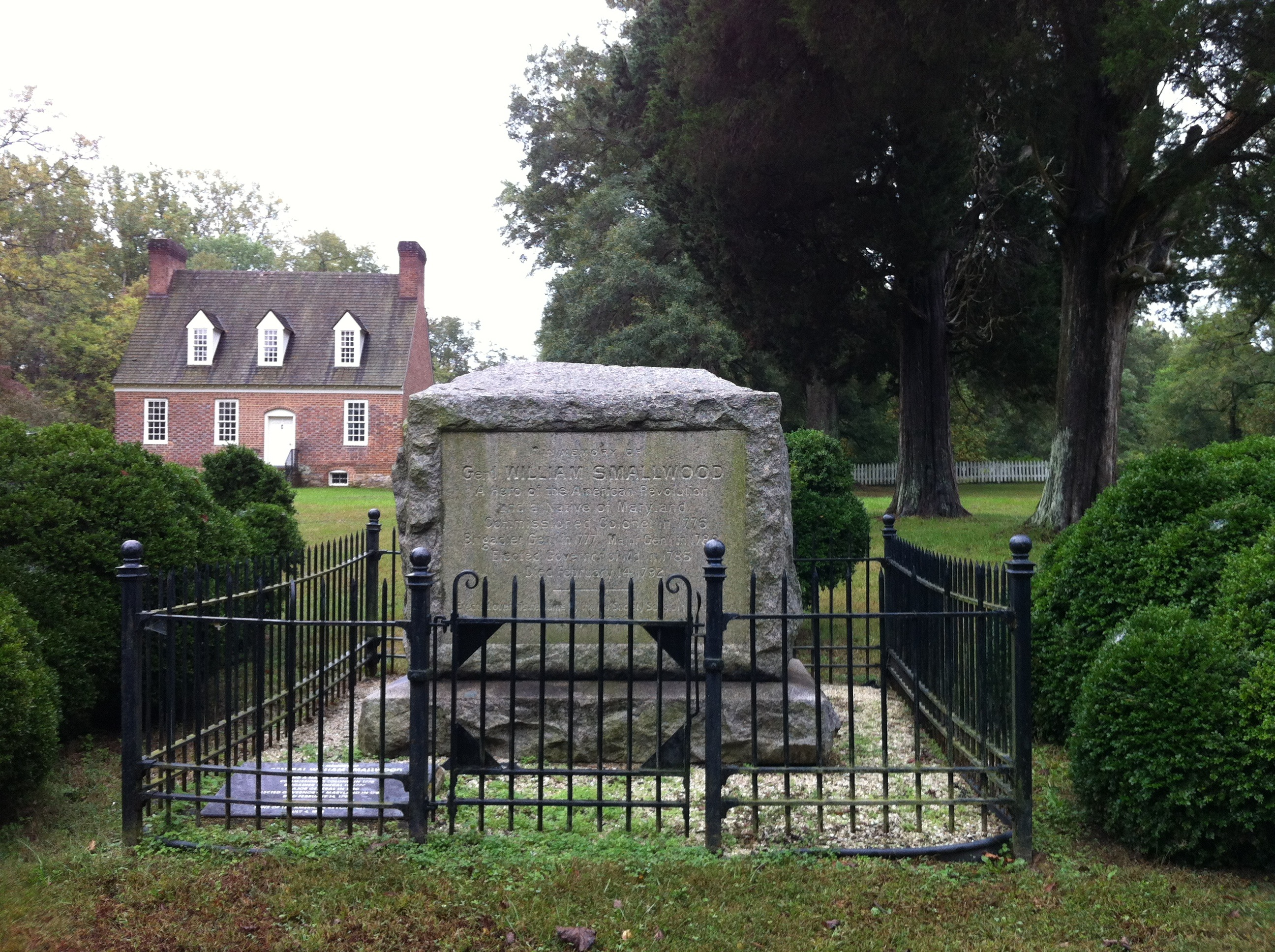 Gravestone of Revolutionary War General William Smallwood at his home, Smallwood's Retreat, near Marbury, Md.